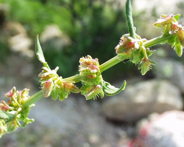 (en)(Gb)Fiddle Dock (Rumex pulcher), a photography originating of the internet site The accord of the autor, H. Brisse, is here. (fr) Patience élégante (Rumex pulcher), une photographie issue du site internet L'accord de l'auteur, H. Brisse, se situe ici. (it)Rómice cavolaccio ; (es)Paradella mollerosa ; (de)Schöner Ampfer ; (nl)Fraaie Zuring